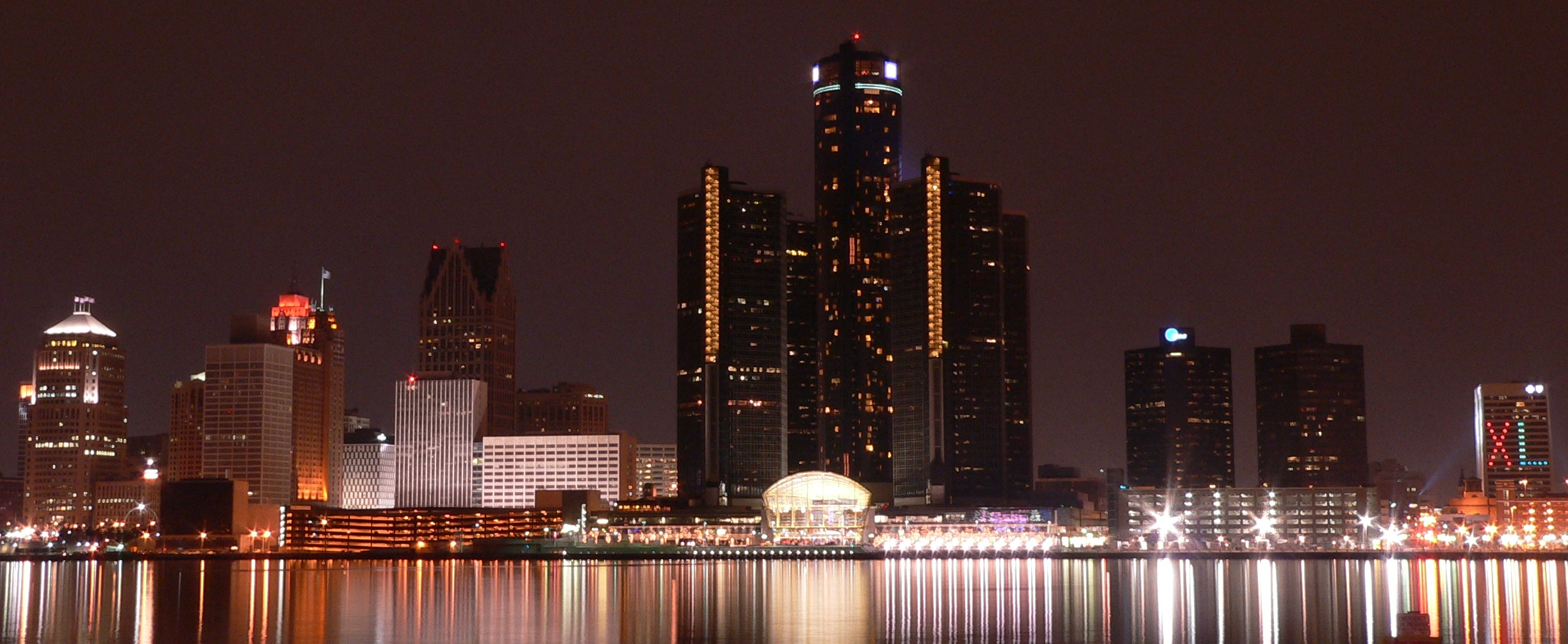 The Detroit International Riverfront and skyline — Detroit, Michigan. From across the Detroit River in Windsor, Canada. Taken Jan. 29th 2006 (exactly 1 week before Superbowl XL) by Shakil Mustafa.